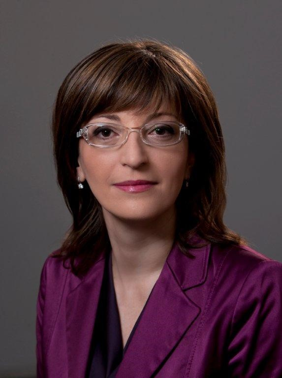 Ekaterina Zakharieva is a Bulgarian former interim Deputy PM and minister of Regional development